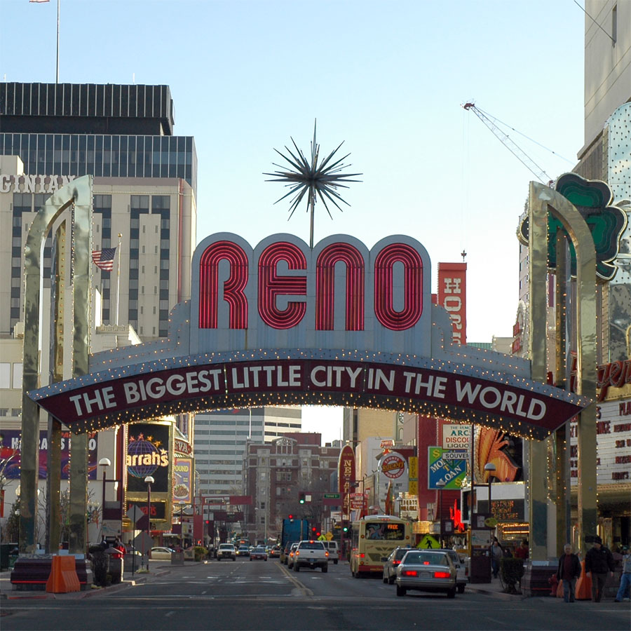 "Biggest Little City in the World" arch on Virginia Street in Downtown Reno, Nevada.